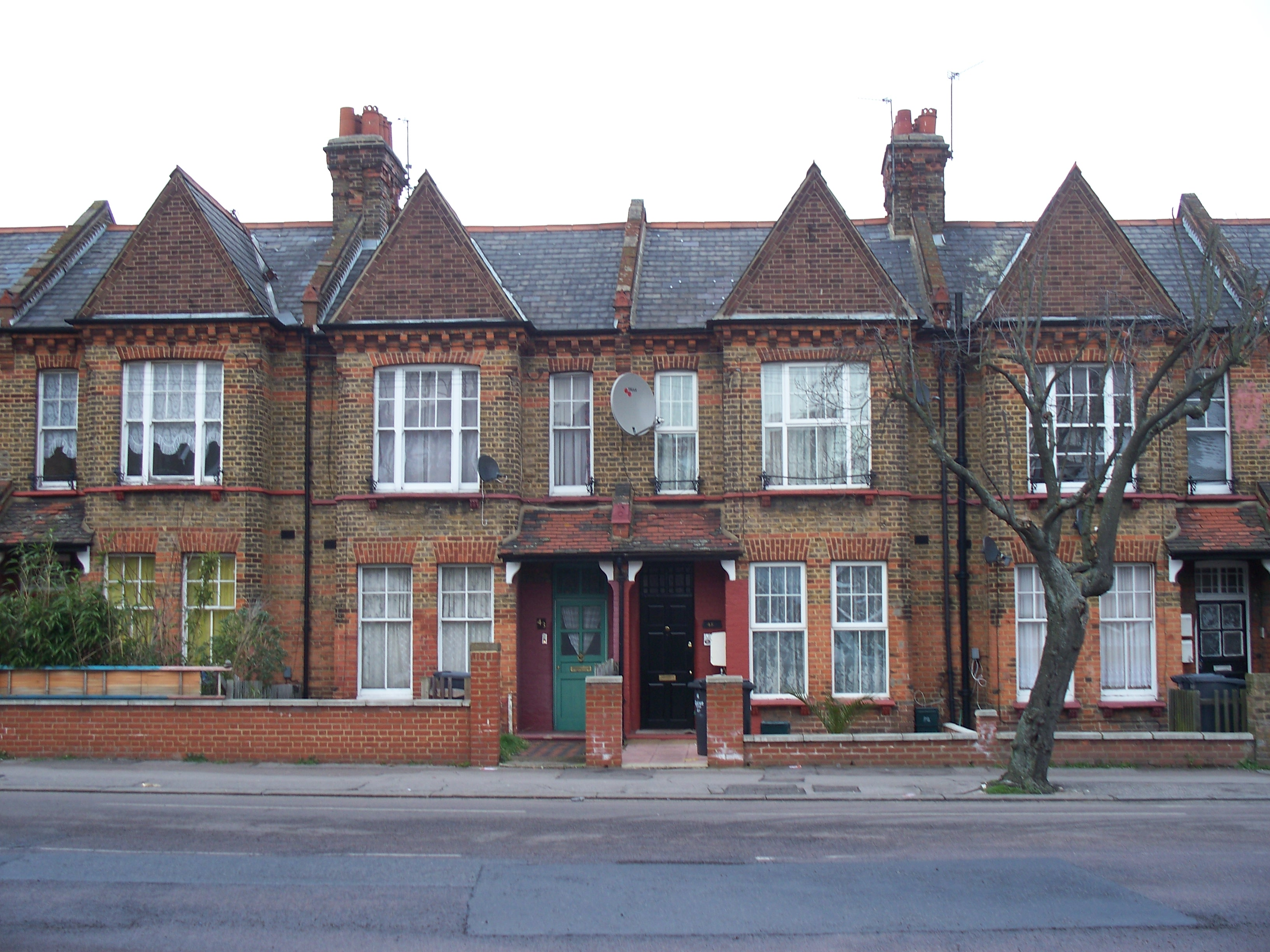 Noel Park, London N22. Photograph taken in a public location in the UK of a building on permanent public display, and exempt from copyright under Section 62 of the Copyright Designs & Patents Act 1988 ("it is not an infringement of copyright to film, photograph, broadcast or make a graphic image of a building, sculpture, models for buildings or work of artistic craftsmanship if that work is permanently situated in a public place or in premises open to the public")